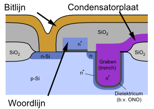 Cross-setion of the Trench Capacitor DRAM cell